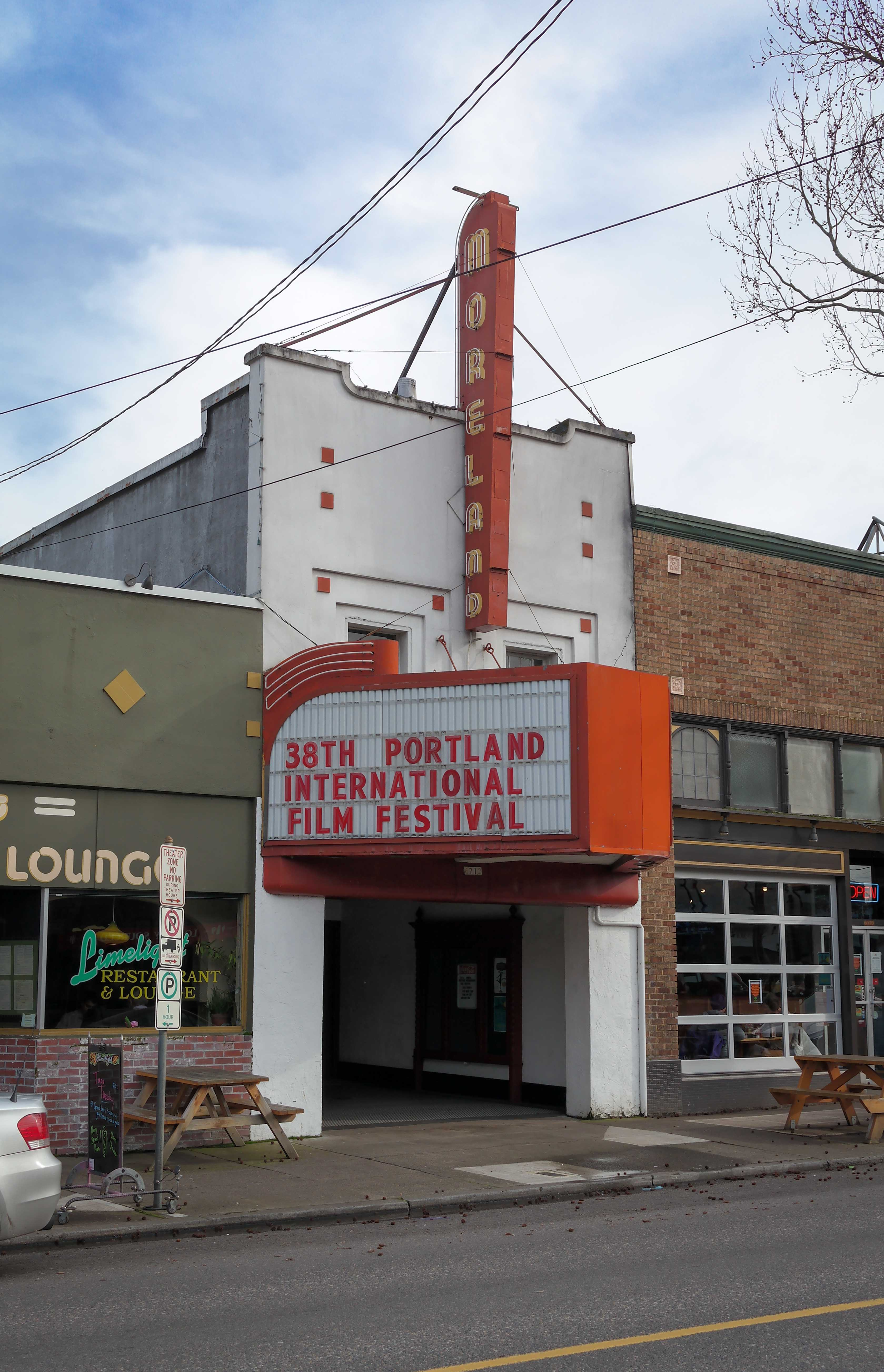 The Moreland Theater in the Westmoreland neighborhood of Portland, Oregon